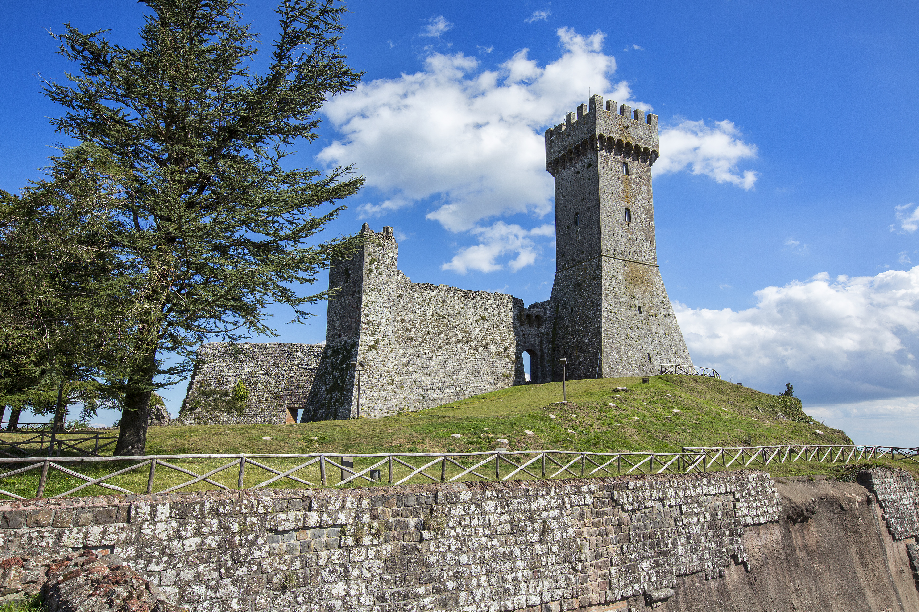 Radicofani la fortaleza